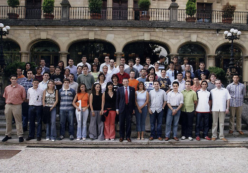 EGI members with Ibarretxe President